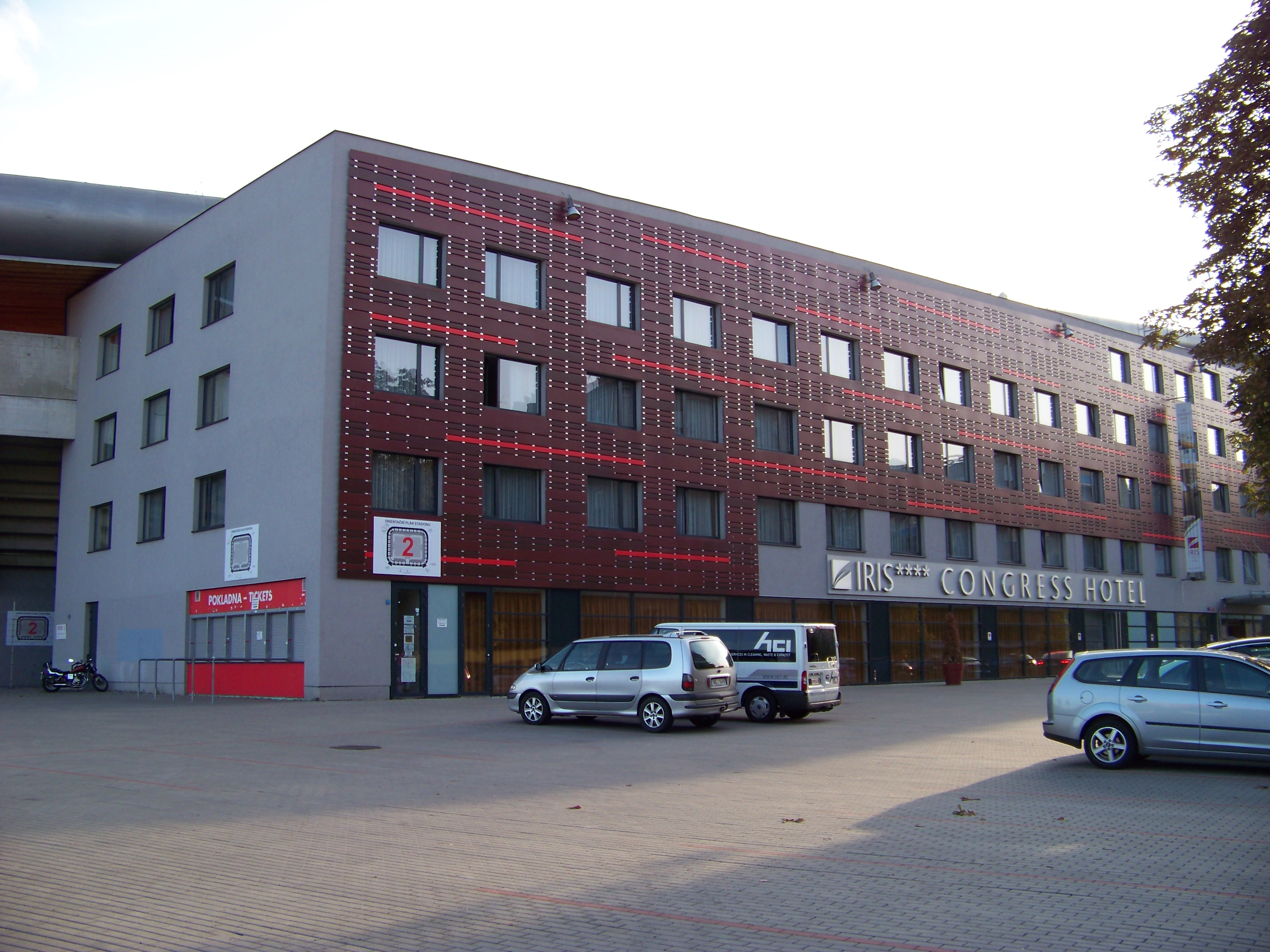 Prague-Vršovice, the Czech Republic. Vladivostocká 1539/2, Eden Stadium, Iris Congress Hotel.